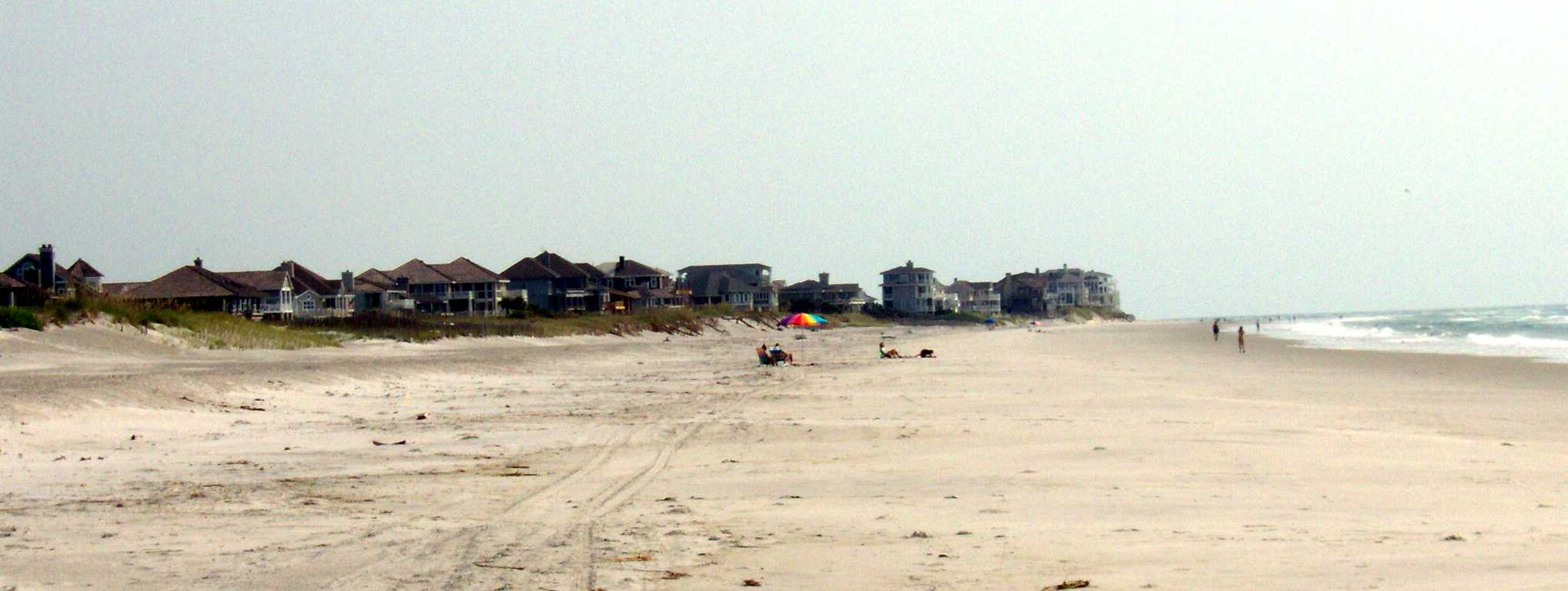 Picture of Figure Eight Island, North Carolina from the beach.